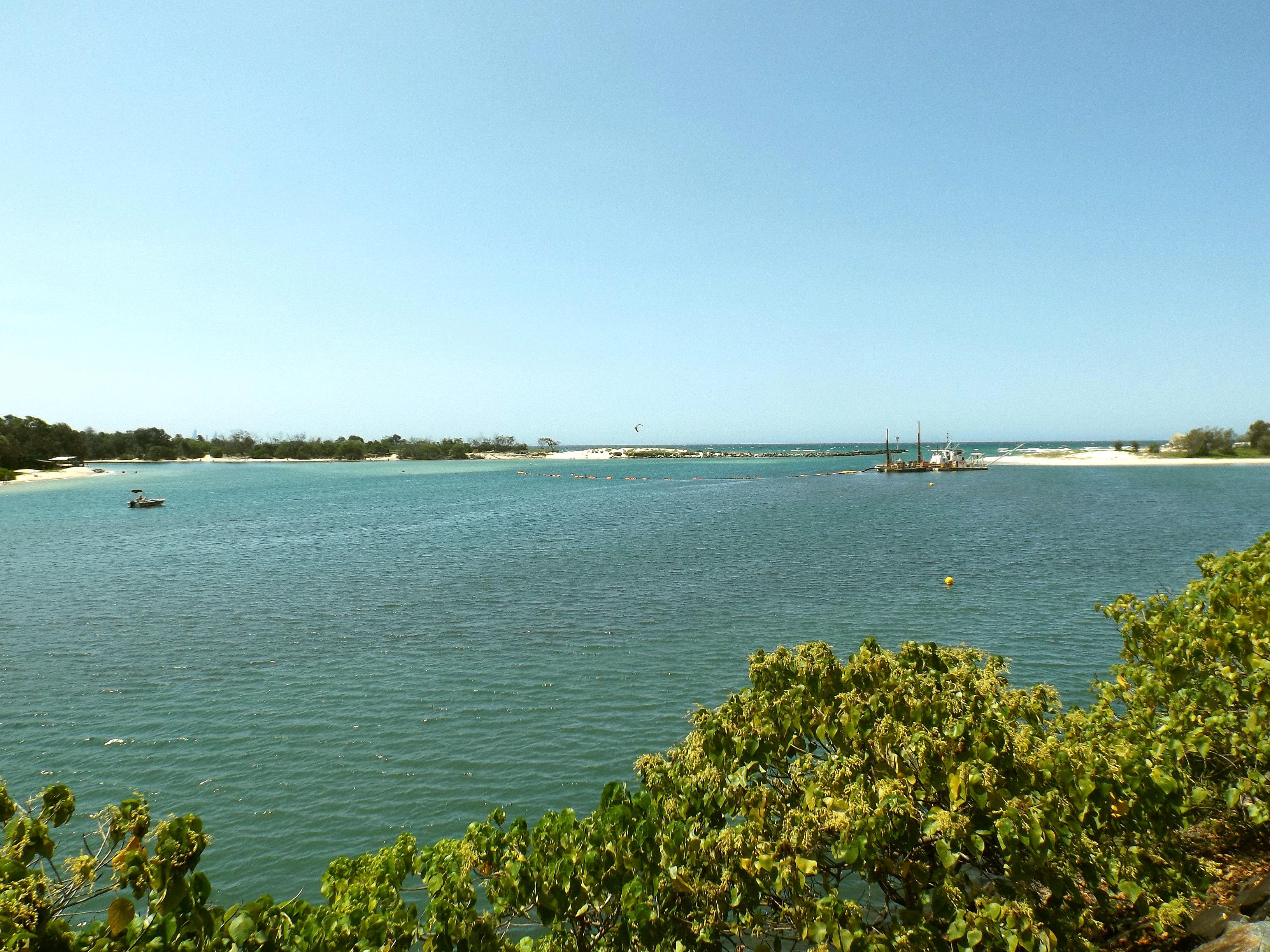 Photo of the mouth of Currumbin Creek between Palm Beach to the north (left) and Currumbin (right) on the Gold Coast, Queensland, Australia.